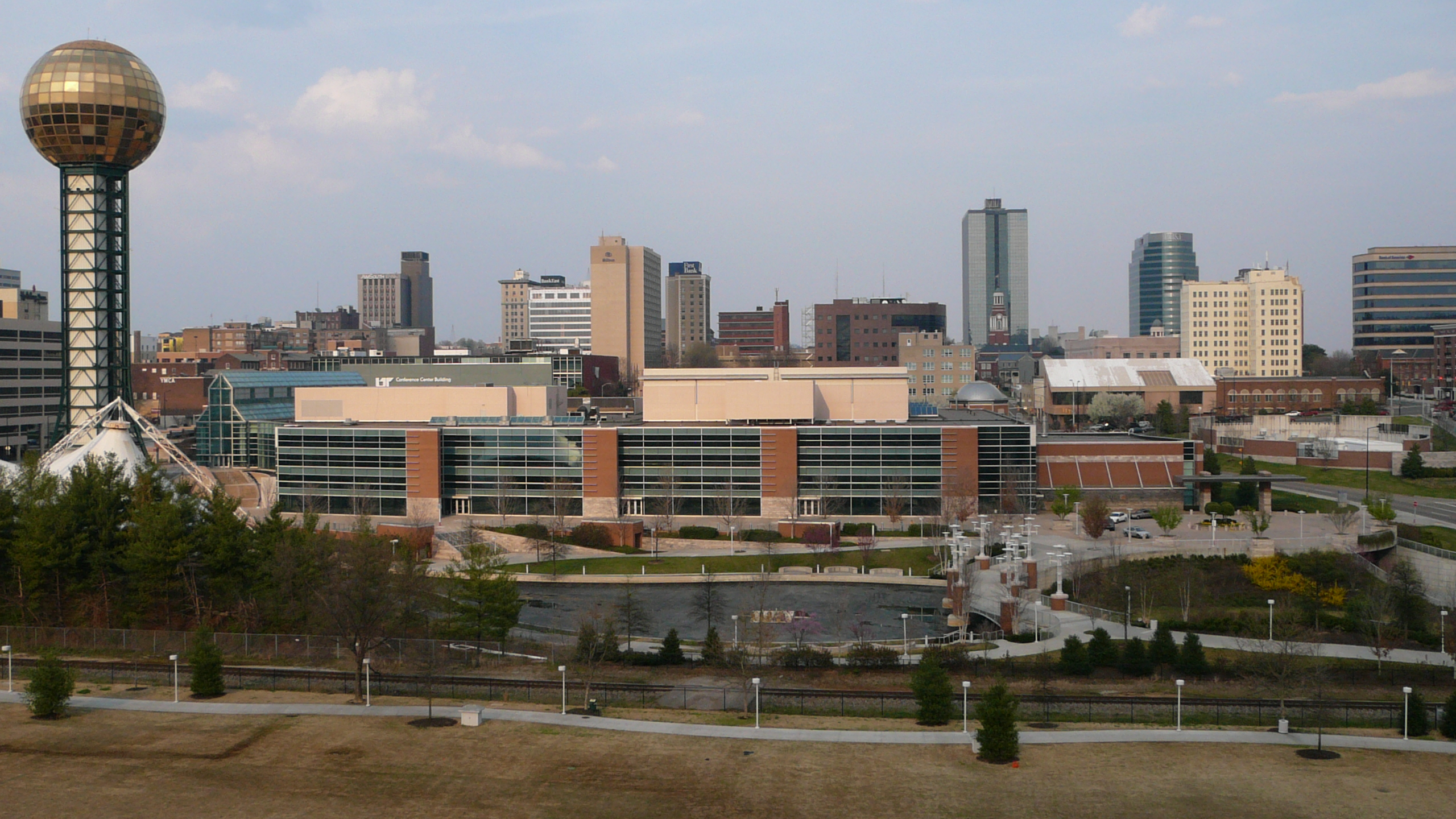 Eastward view of the skyline of downtown Knoxville, Tennessee.